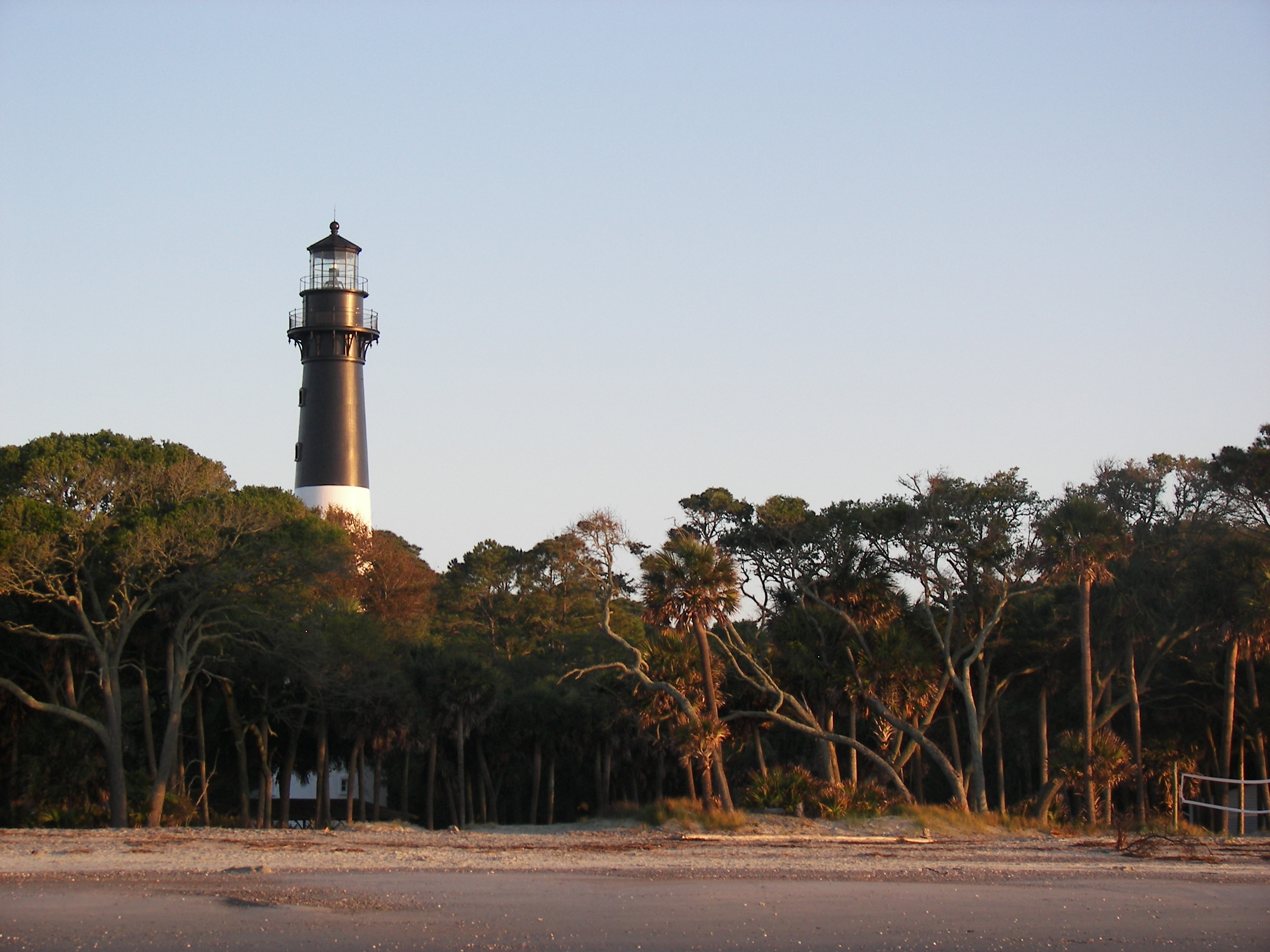 Hunting Island Lighthouse — in Hunting Island State Park, Beaufort County, South Carolina.